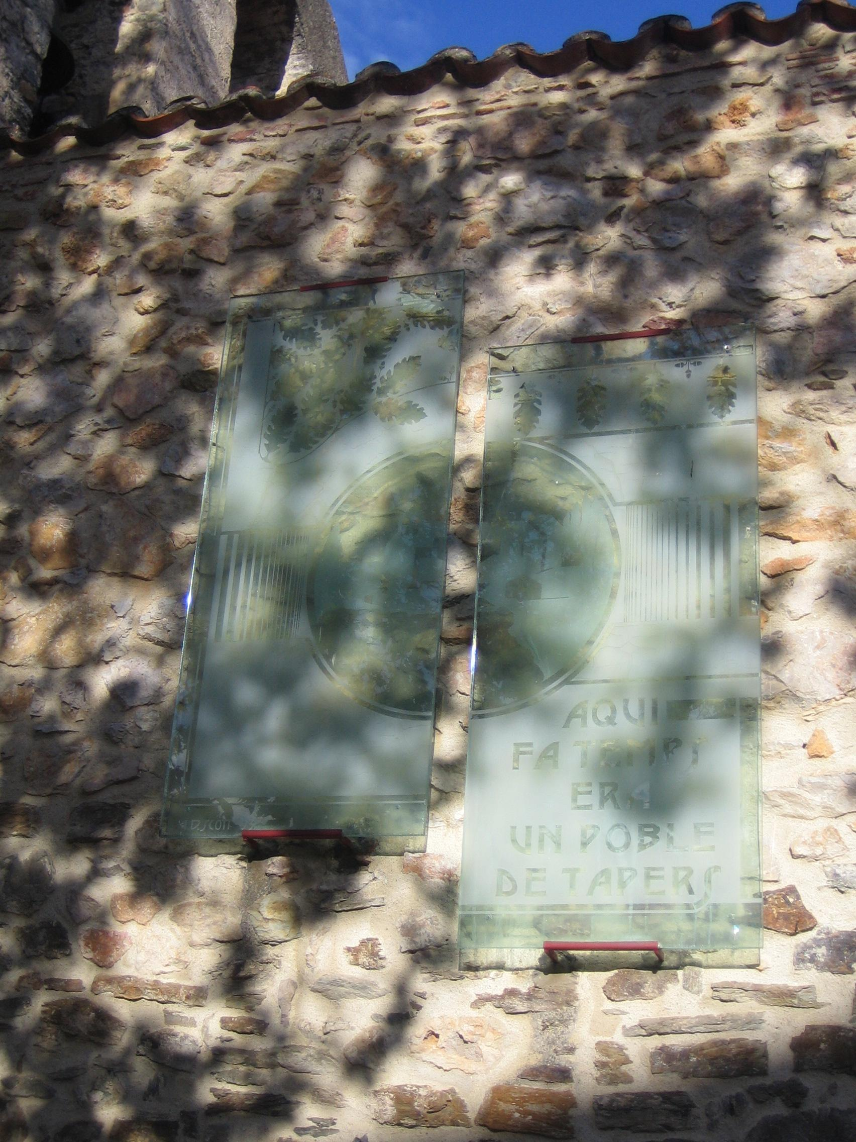 Llauro (Rosselló)